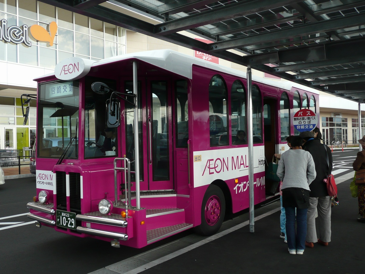 Miyazaki Kotsu Bus (ÆONmall MiELL - Miyakonojo City, Miyazaki, Japan)